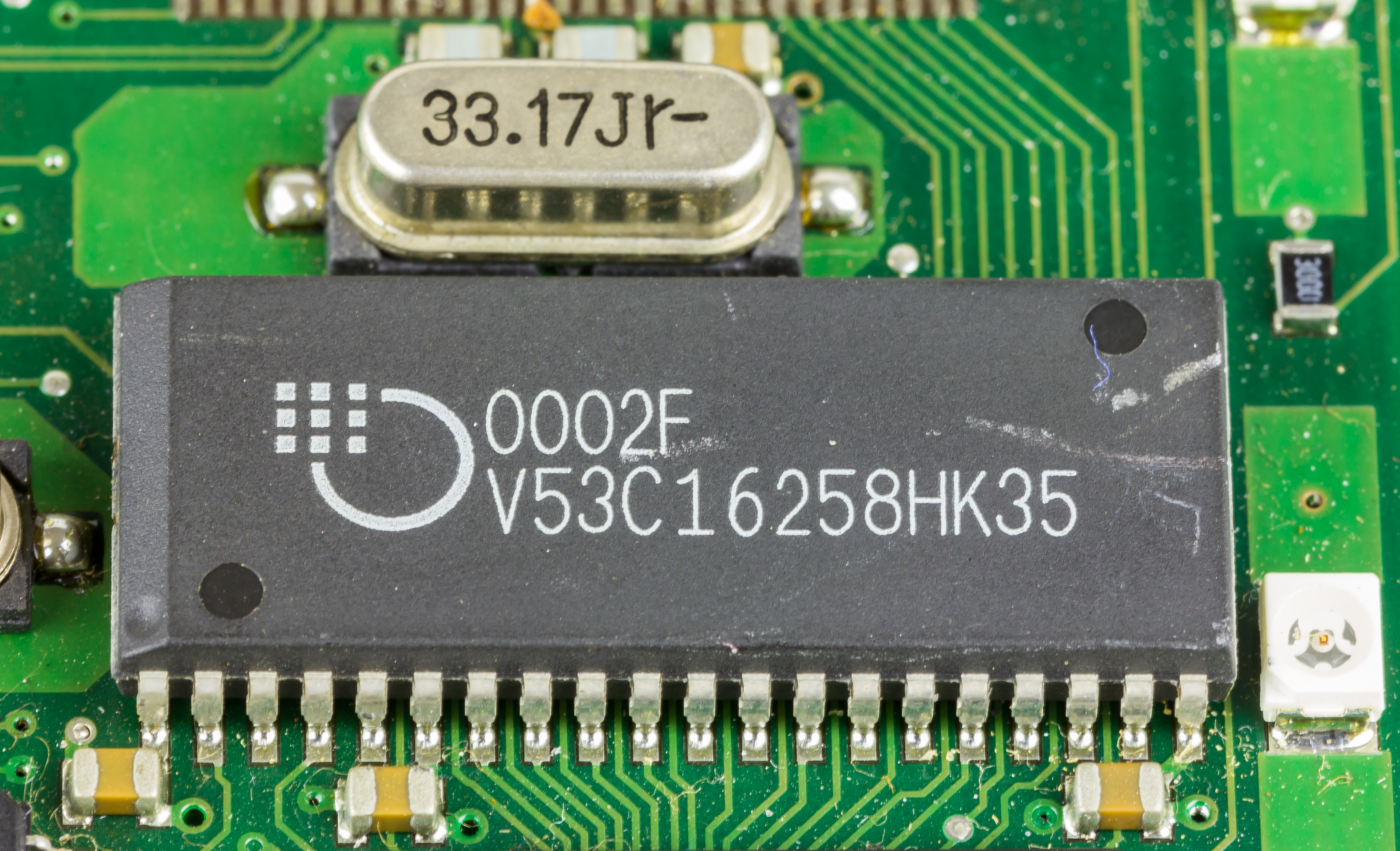 1&1 NetXXL powered by FRITZ! - Mosel Vitelic V53C16258HK35 (High Performance 256K X 16 Edo Page Mode CMOS Dynamic RAM) on mainboard